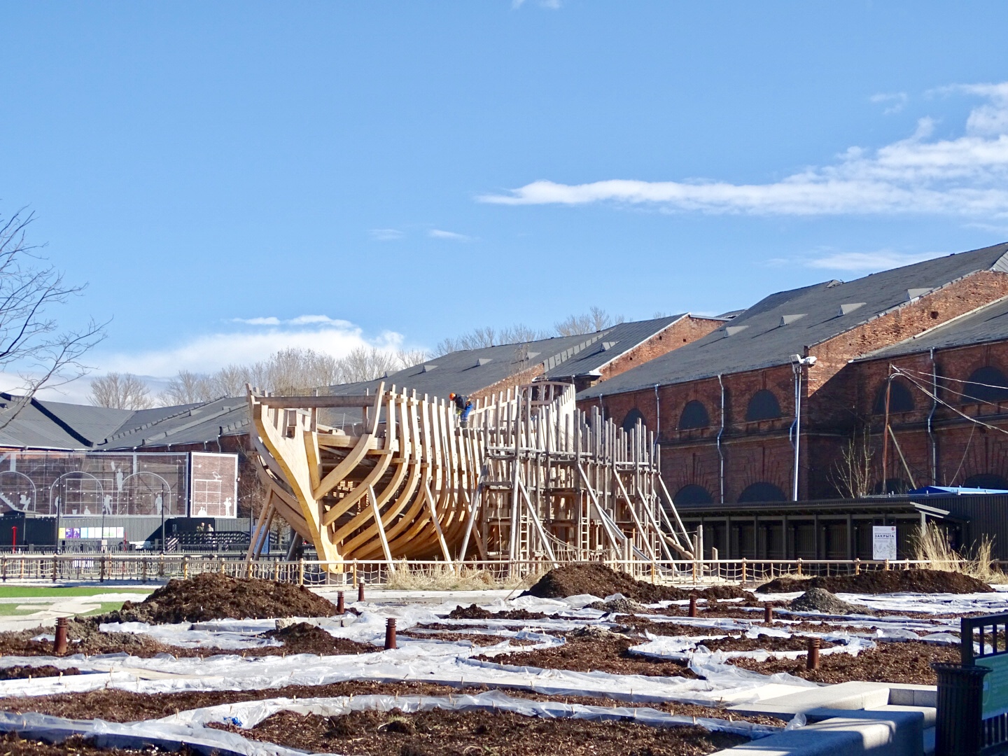 New Holland playground